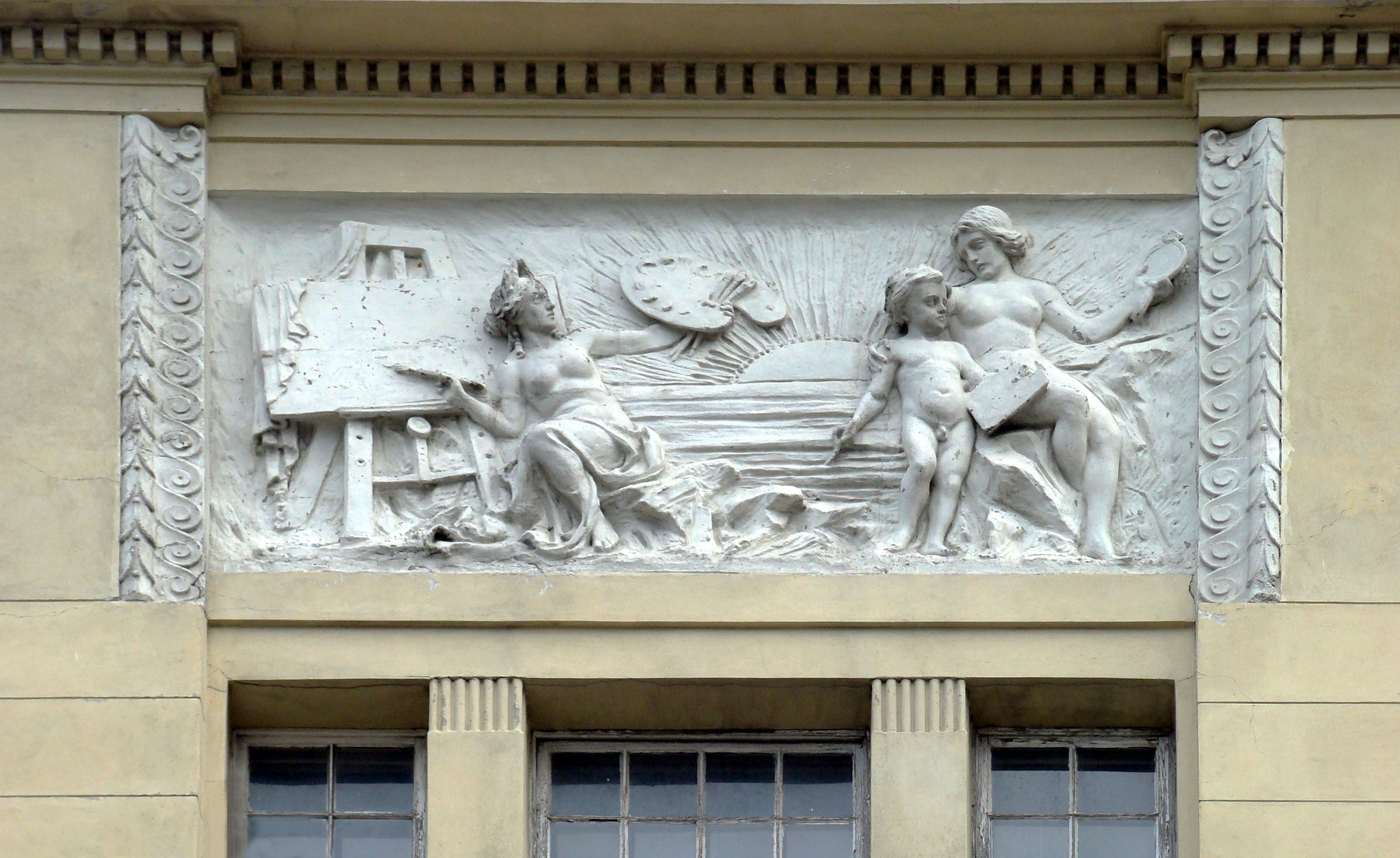 Apartment house, 6, Marszałkowska St., Warsaw, architect Ludwik Panczakiewicz